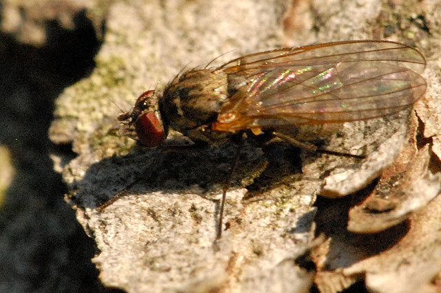 Morpholeria ruficornis from Commanster, Belgian High Ardennes .